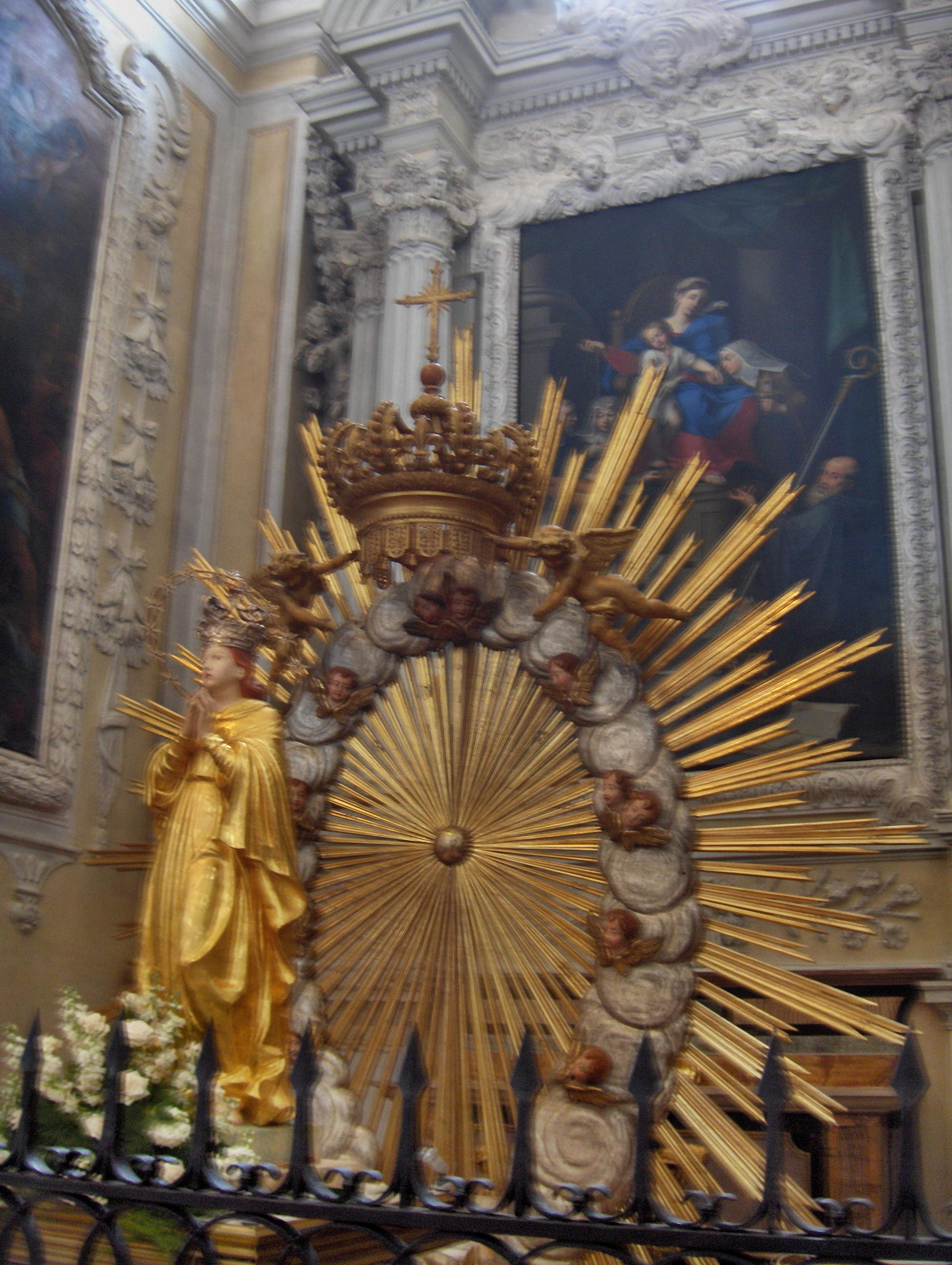 Chapel of Our Lady of the Rosary (1603) Basilica of Santa Maria degli Angeli, Assisi, Italy; above the altar : Our Lady of the Rosary and saints (Domenico Maria Muratori)